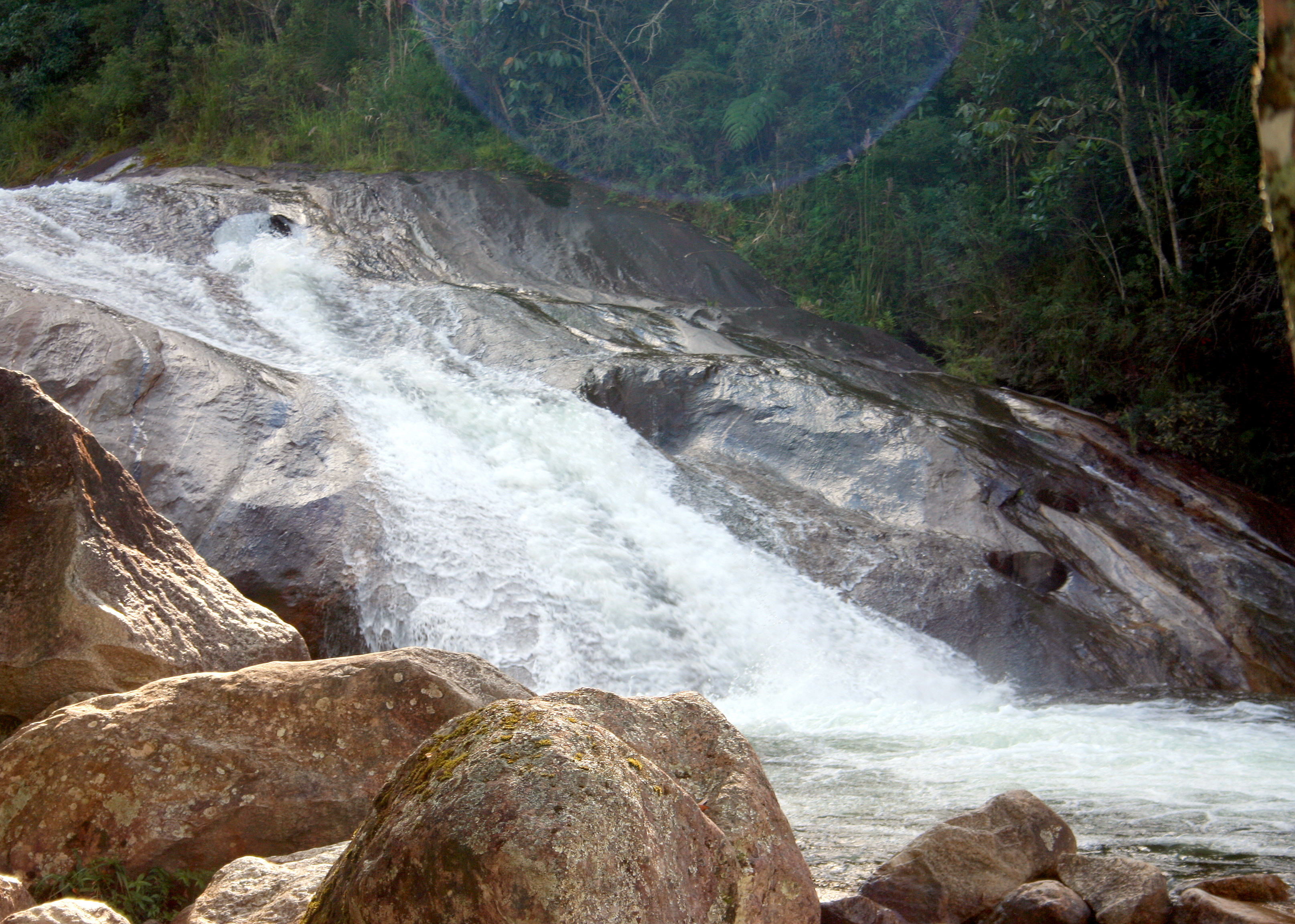 Cachoeira do Escorrega - A waterfall in Visconde de Mauá, Rio de Janeiro, Brazil